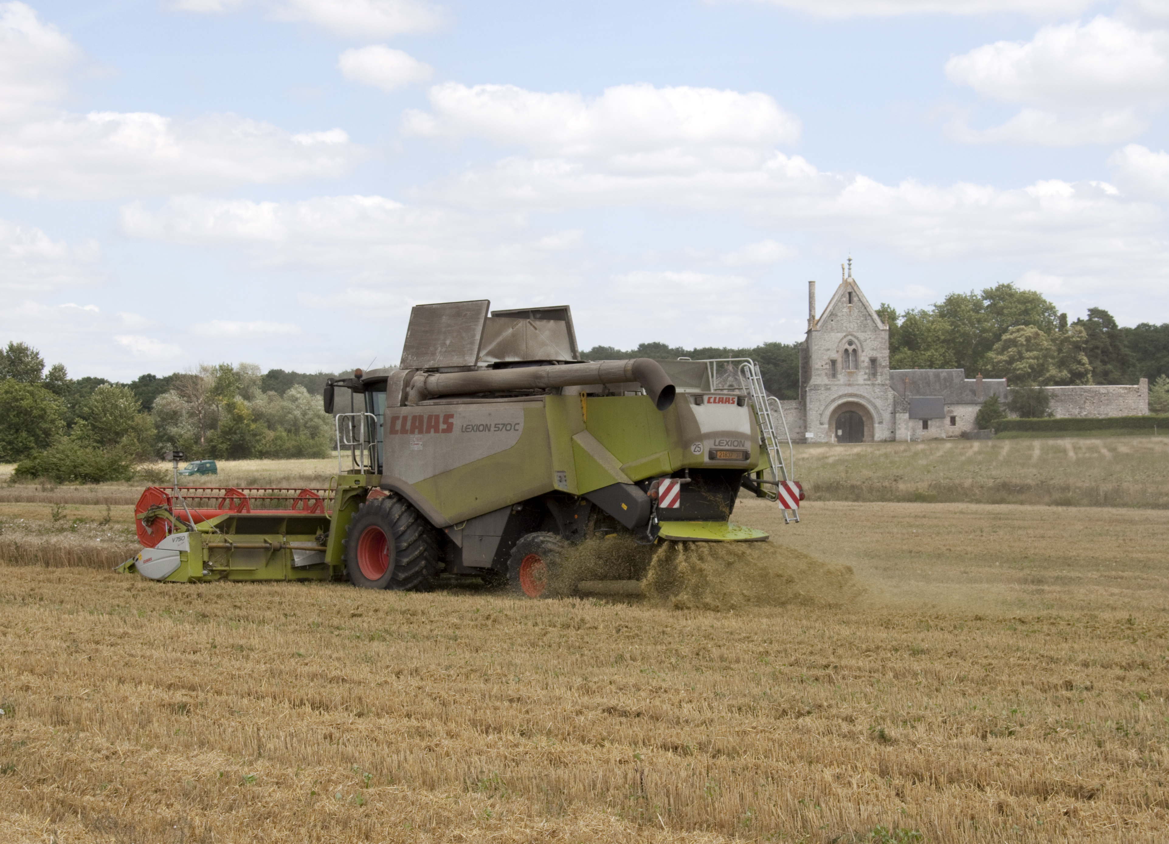 Claas Lexion 570 C combine harvester with a Claas V 750 header (with laser pilot) and active straw chopper (at the rear), seen on the road from Chartres to Poitiers, France.